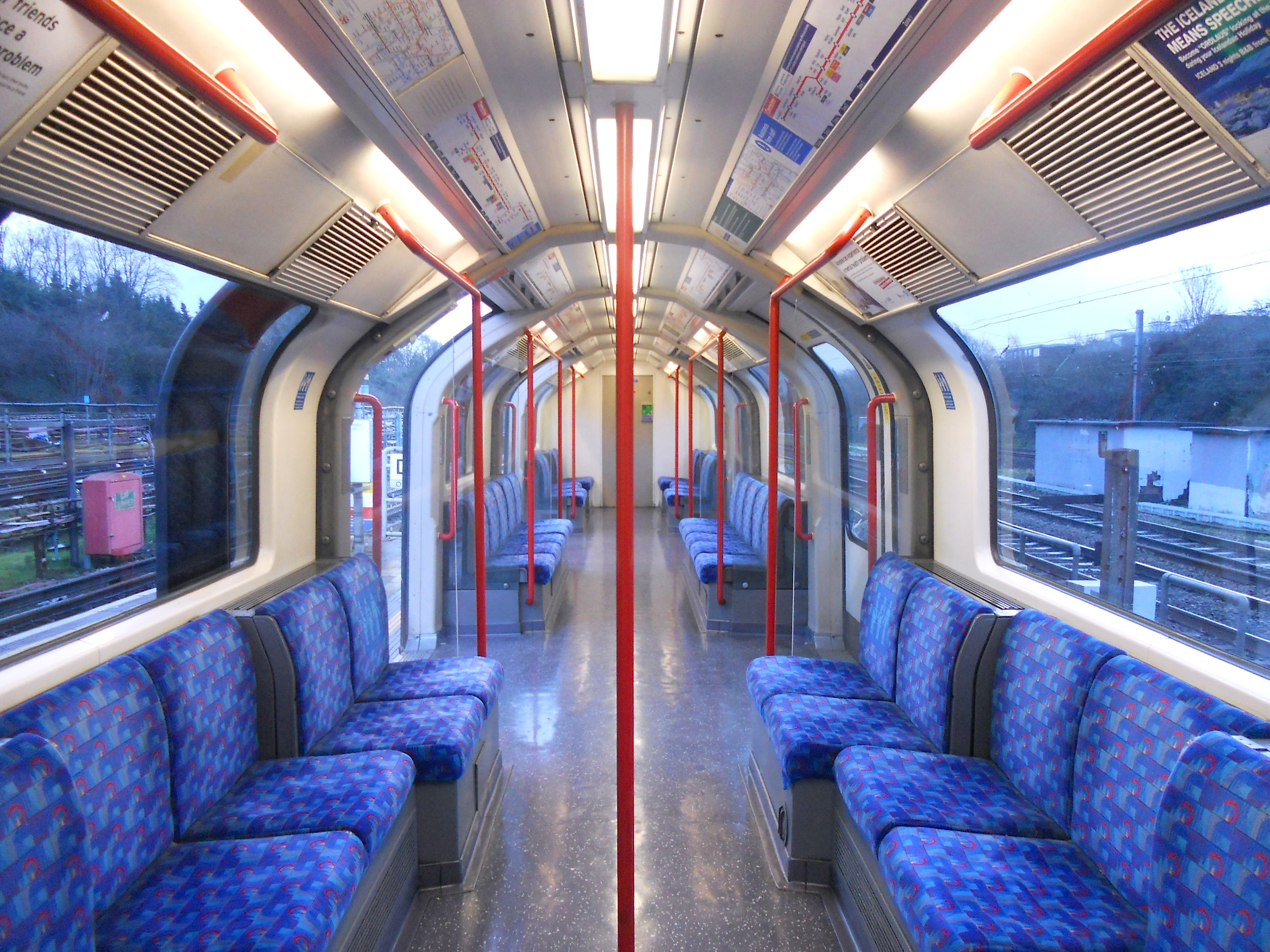 The refreshed interior of a London Underground Central line 92 Tube Stock